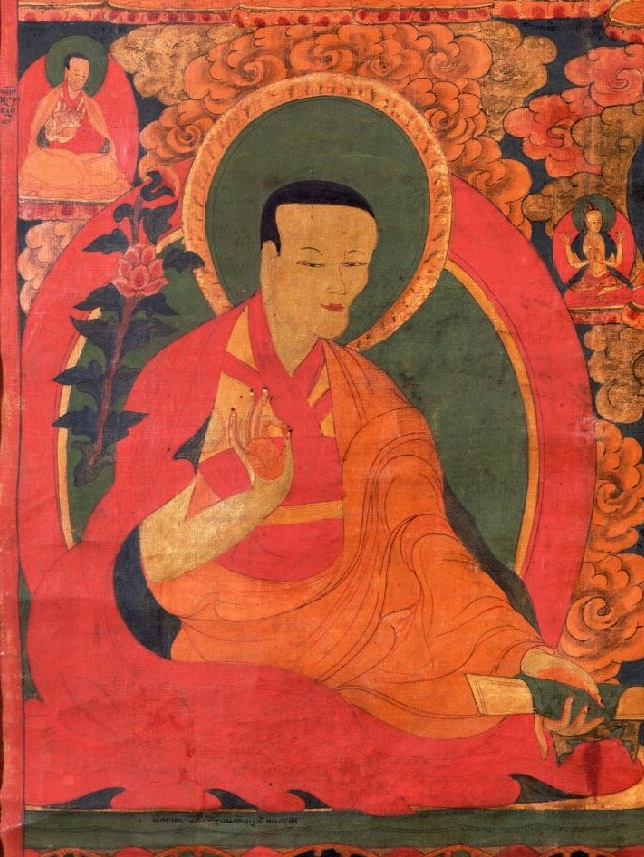 Muchen Sempa Chenpo Konchok Gyeltsen, b.1388 - d.1469, 2nd Ngorchen